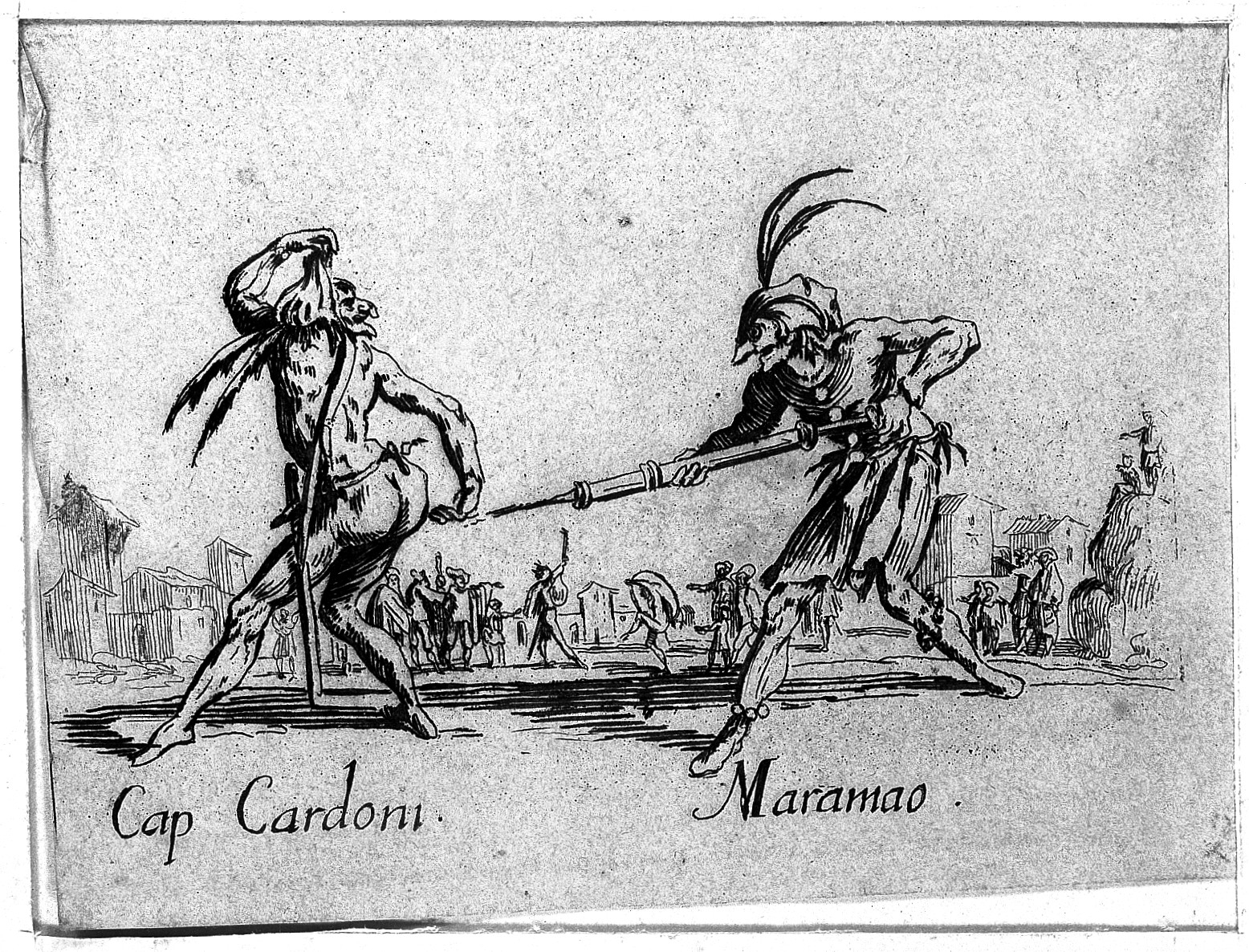 Two Commedia dell'arte street entertainers using a clyster as part of their performance. Etching after J. Callot. Iconographic Collections Keywords: Cap Cardoni; Maramao; Jacques Callot